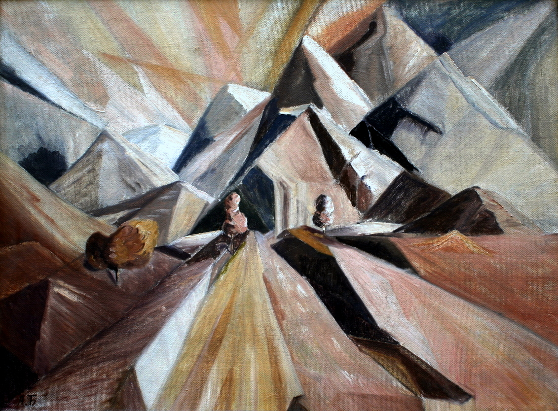 "Karabakh" size: 61x 82 cm